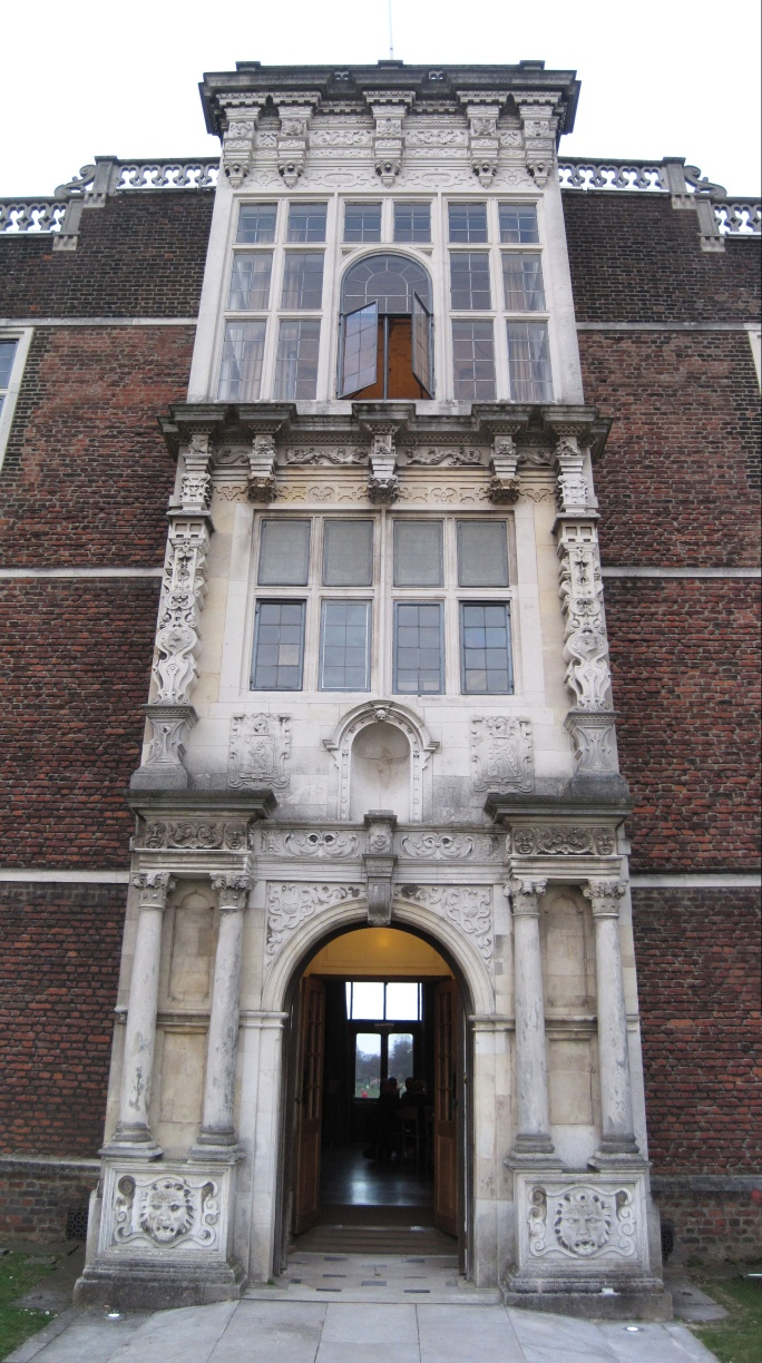 Charlton House